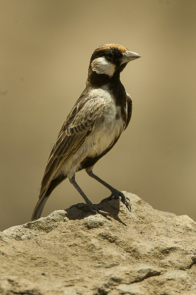 Fisher's Sparrow-Lark - Tanzania_2008-03-01_0063